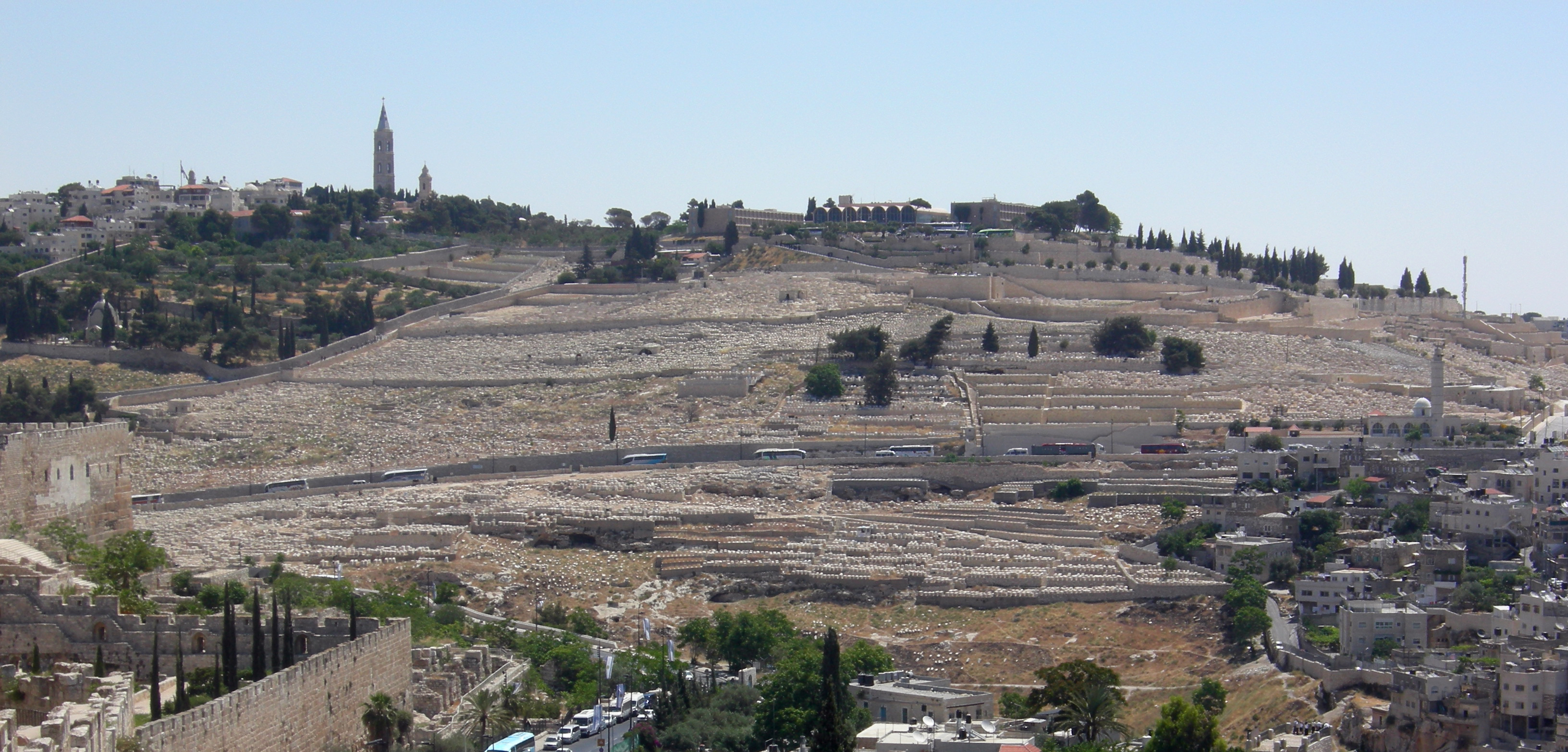 Mount of Olives viewed from the Old City walls of Jerusalem.